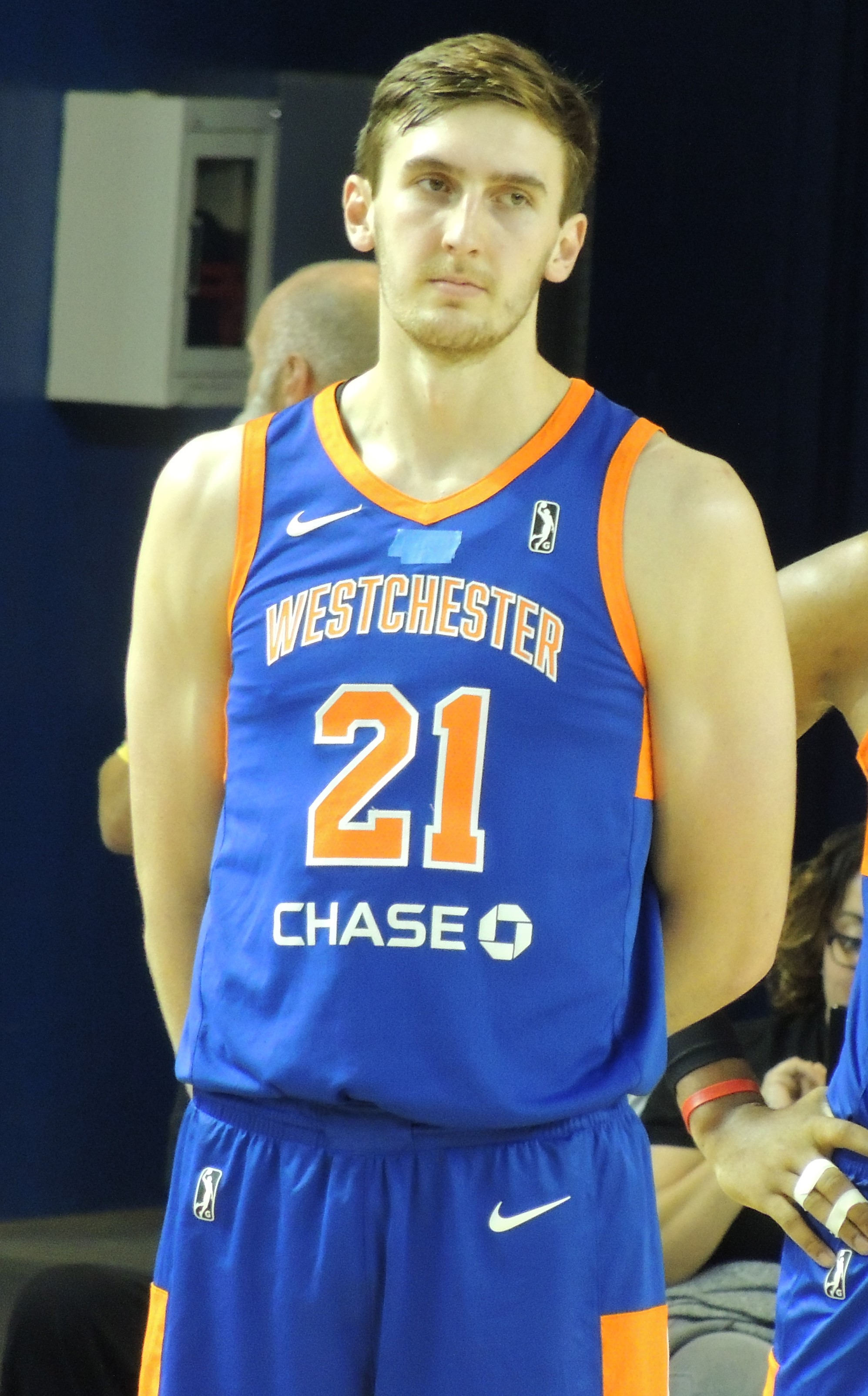 Westchester Knicks center Luke Kornet